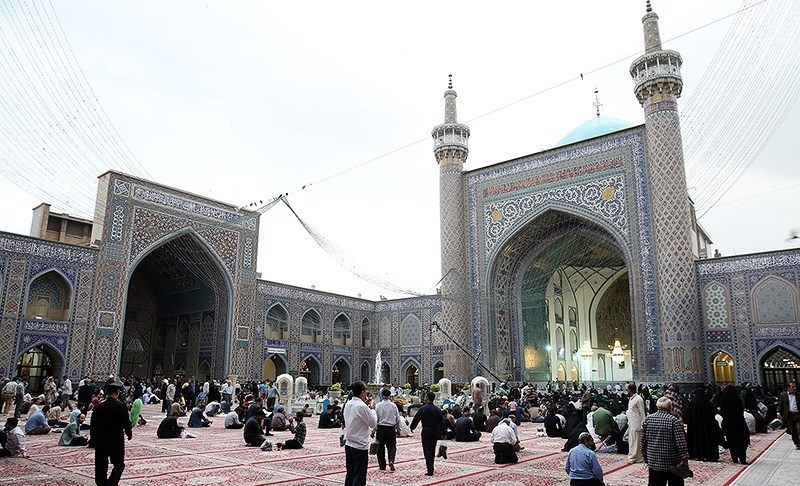 Ramadan 1439 AH, Qur'an reading at Goharshad Mosque, Mashhad - 29 May 2018. main album